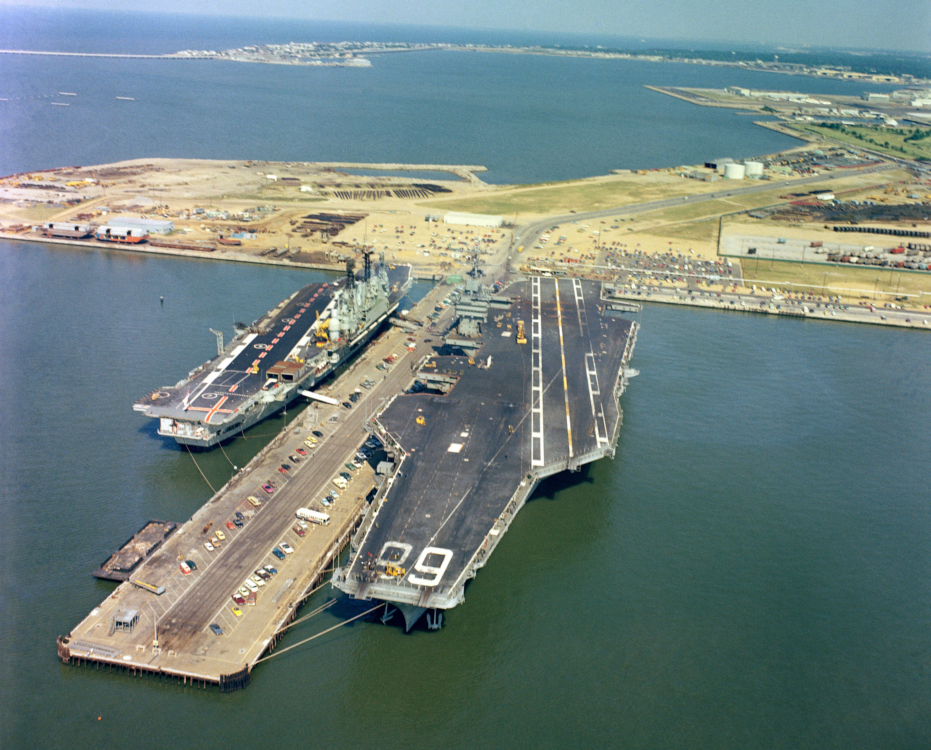 An aerial view of the U.S. nuclear-powered aircraft carrier USS Nimitz (CVN-68) and the British aircraft carrier HMS Ark Royal (R09) tied up at piers at Norfolk Naval Station, Virginia (USA), maybe between 14 and 21 August 1978. Note: The photo may have been taken in 1975 when Ark Royal was having her catapults repaired. Also, Nimitz was having extensive flight deck work in 1978. In the National Archives description, the left hand carrier is wrongly identified as HMS Hermes (R12) on 26 June 1987.